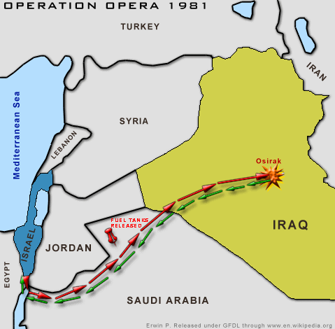 Map of the Operation Opera, bombing of Osirak.